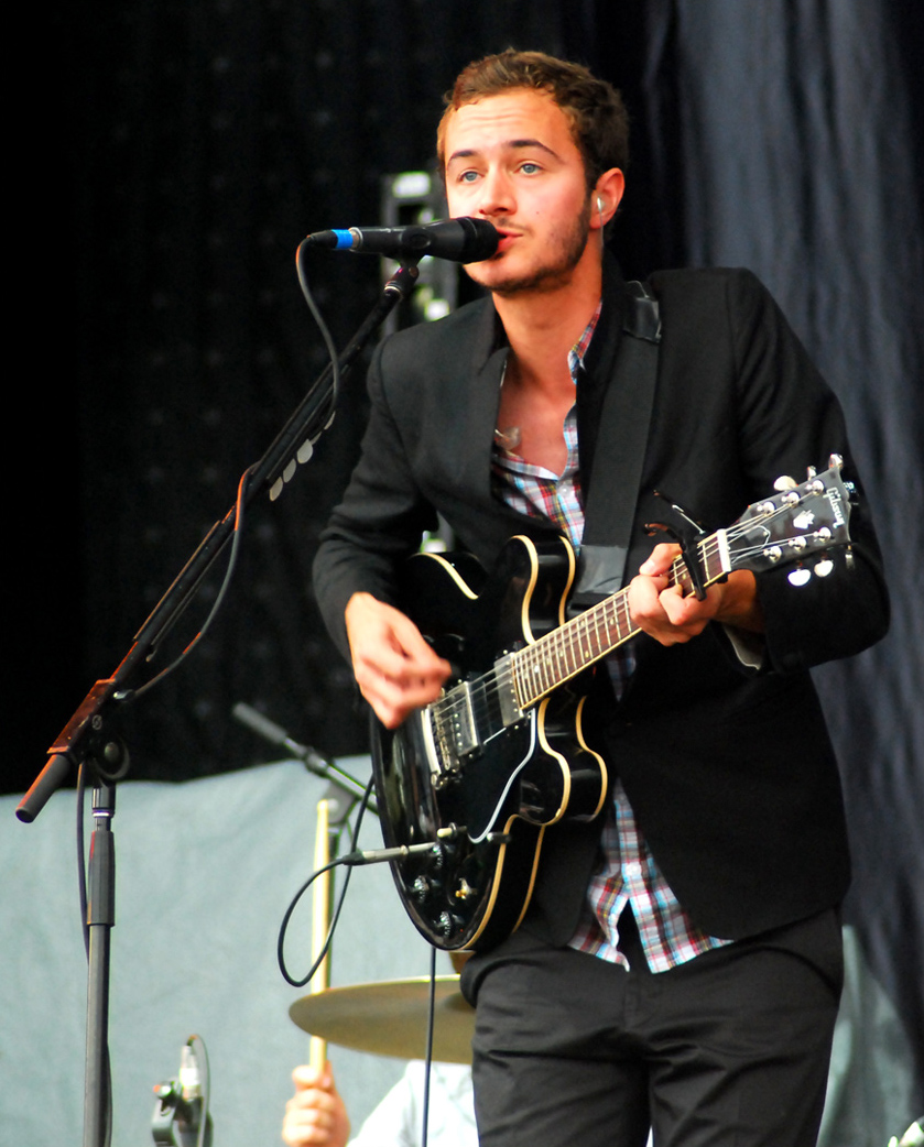 I went to see REM, the greatest rock band the USA have ever produced, and this 4-piece from Birmingham were supporting them. They weren't bad but REM rocked!! TOM SMITH - EDITORS